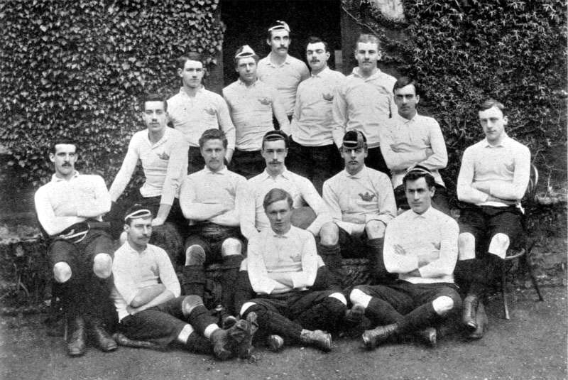 The 1889 Oxford University Rugby union Varsity Match team, Back Row (L-R): L.J.Percival, W.E.Bromet, E.H.G.North, P.C.Cochran, R.S.Hunter. Sitting: J.H.G.Wilson, R.F.G. de Winton, C.J.N.Fleming, R.O.B.Lane, R.T.D.Budworth, A.M.Paterson, A.R.Kay. On Ground: P.R.Clauss, R.G.T.Coventry, J.S.Longdon.